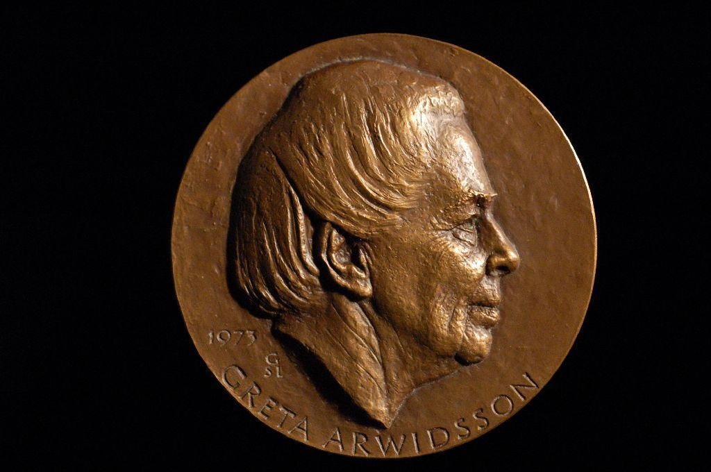 GRETA ARWIDSSON / 1973